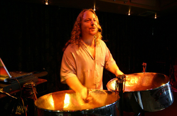 Solo steel drummer with computerized backing tracks.